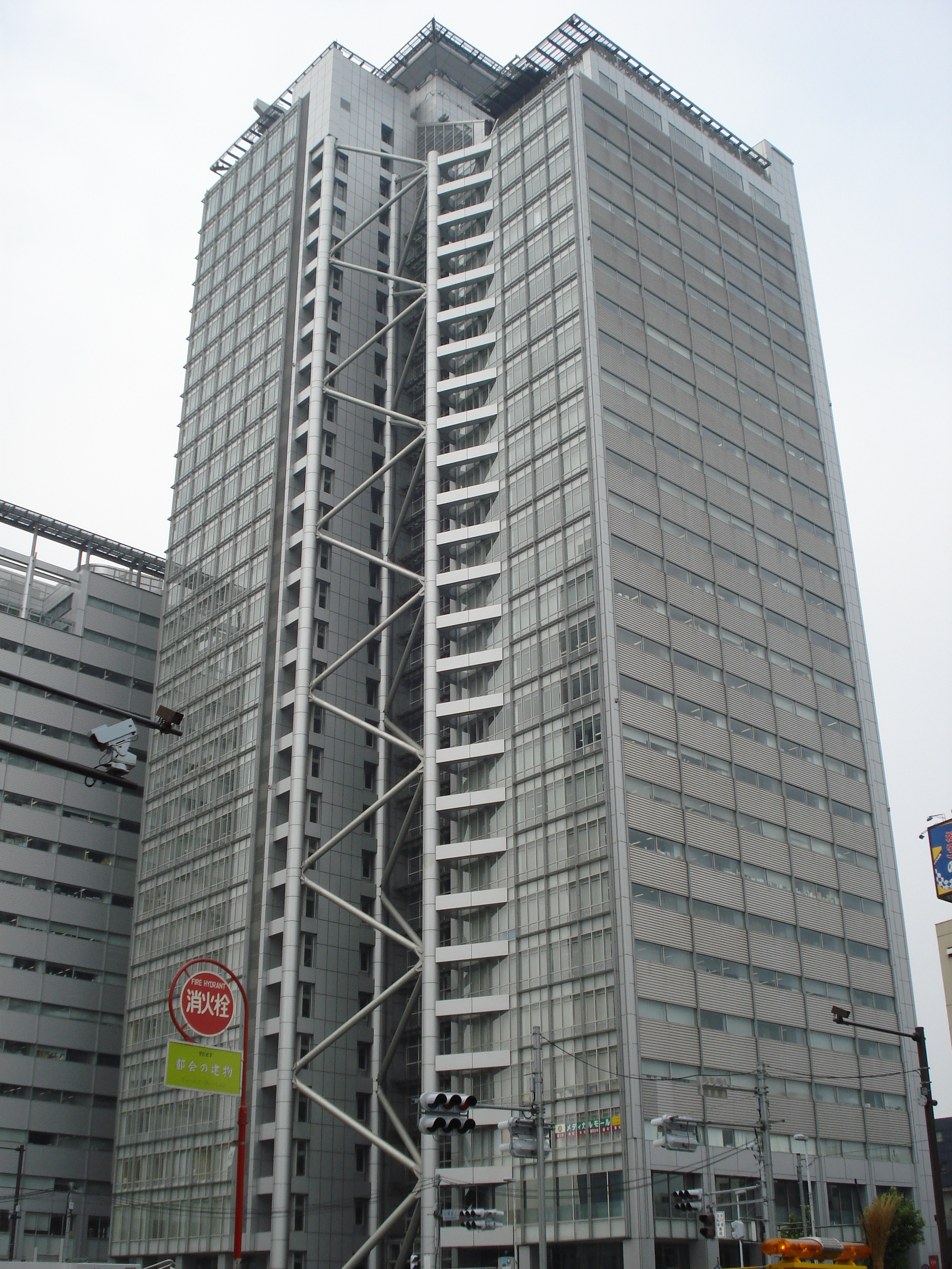 Building